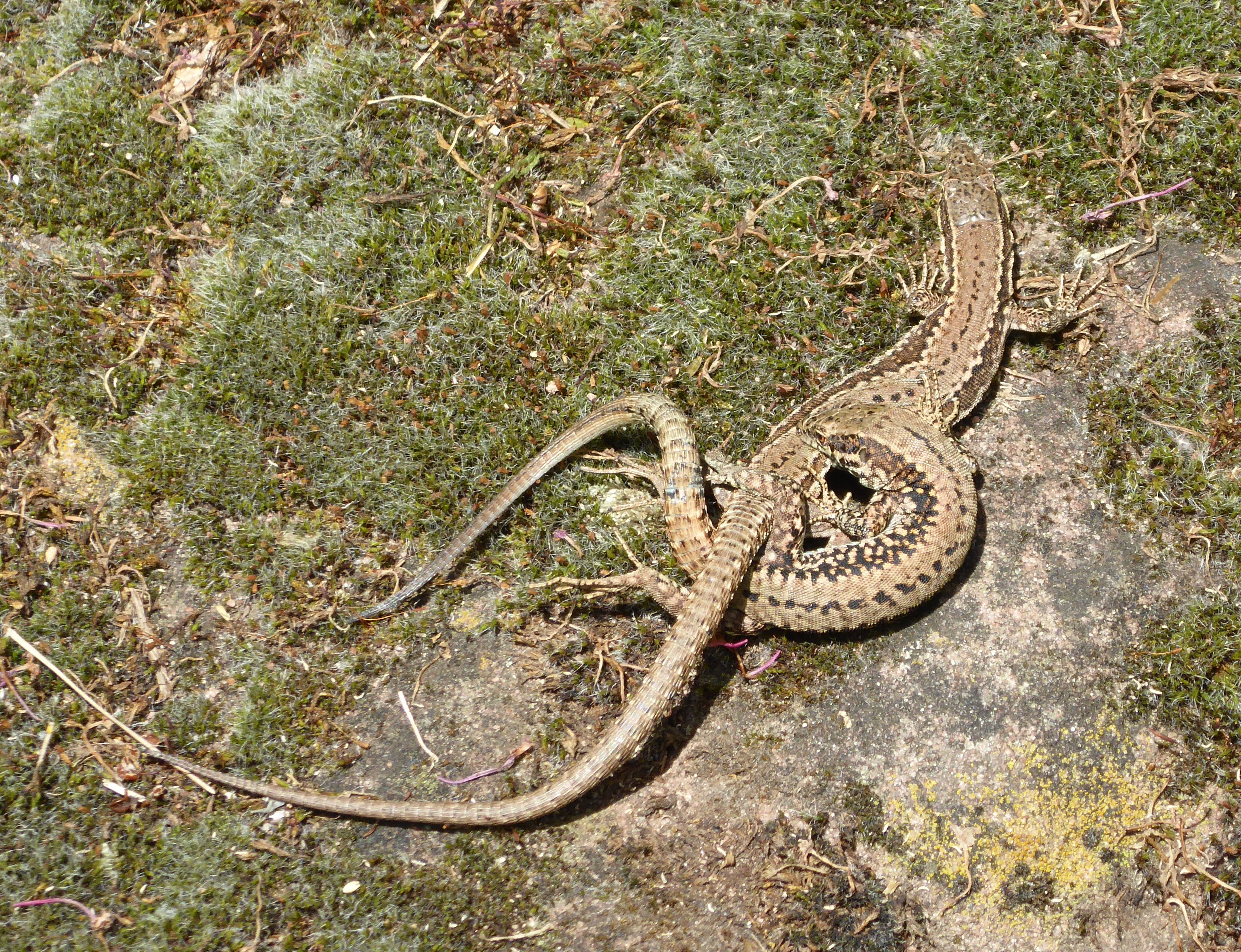 Podarcis muralis in copula